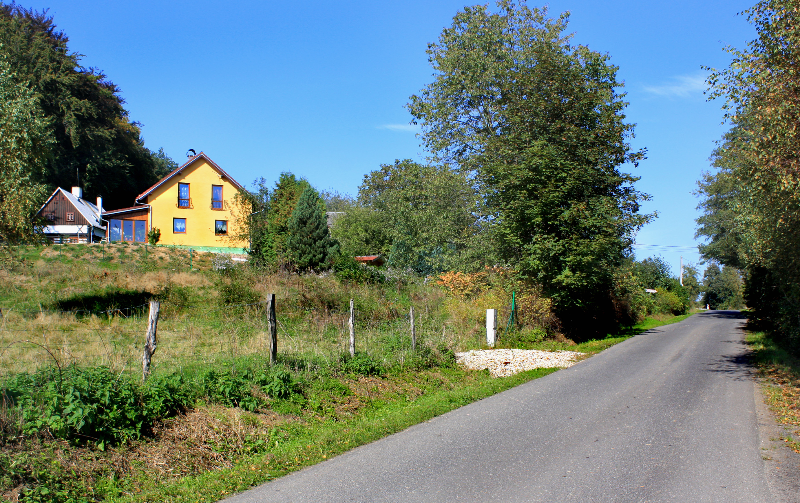 Pekařka, part of Bílý Kostel nad Nisou, Czech Republic